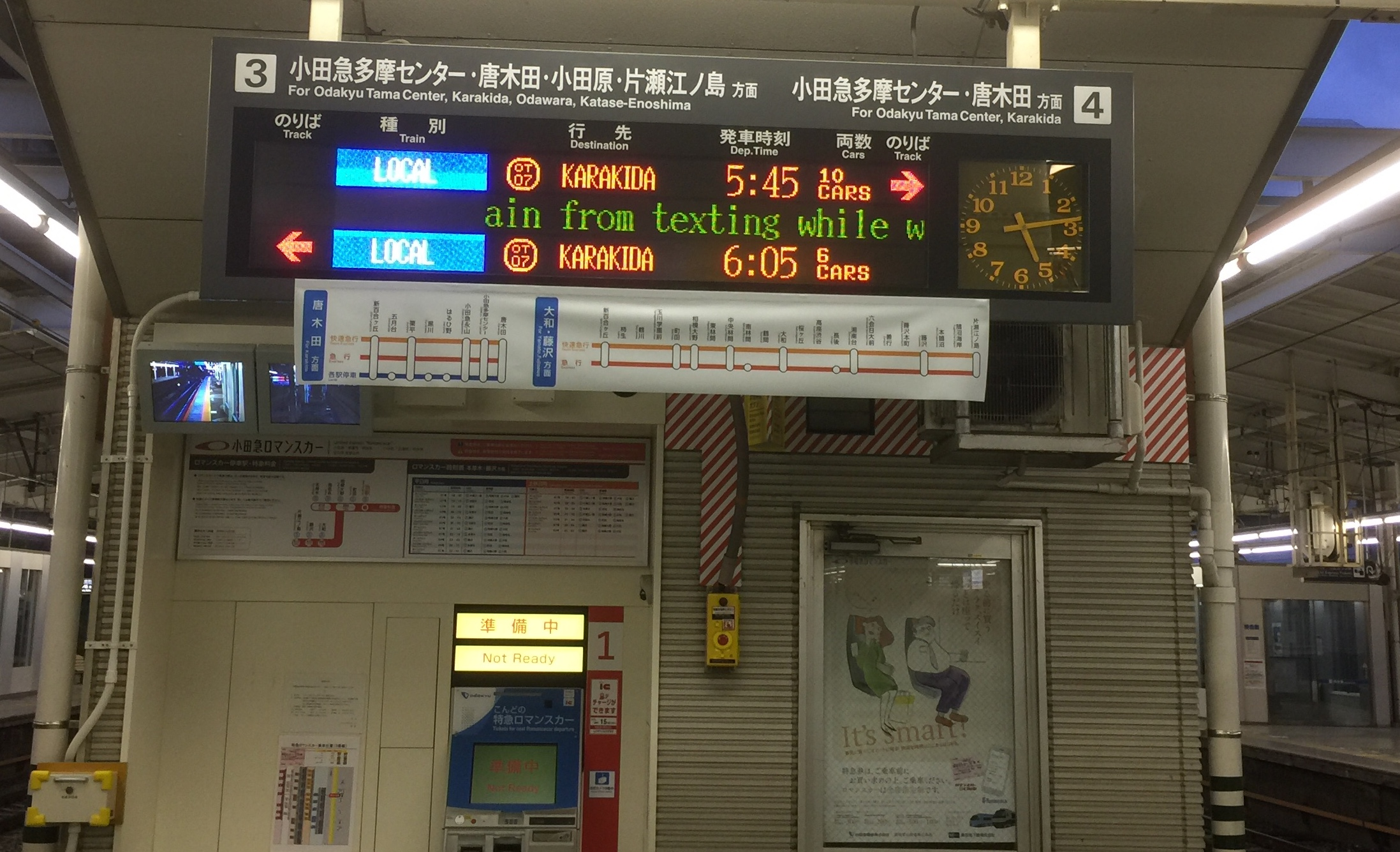 Sinyurigaoka tamaline